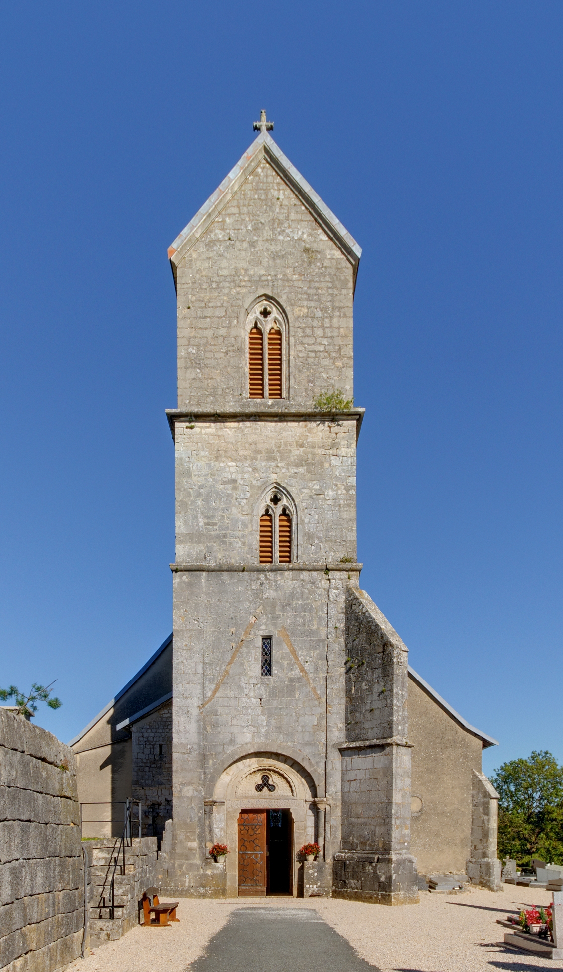 This photograph was taken with a Nikon D300 Église de Saint-Dizier-l'Évêque : façade principale (monument inscrit MH n° PA00101157) (HDR).